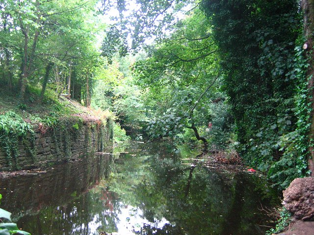 The Water of Leith, above the Dean Village, running through a wooded gorge beneath Edinburgh's New Town.